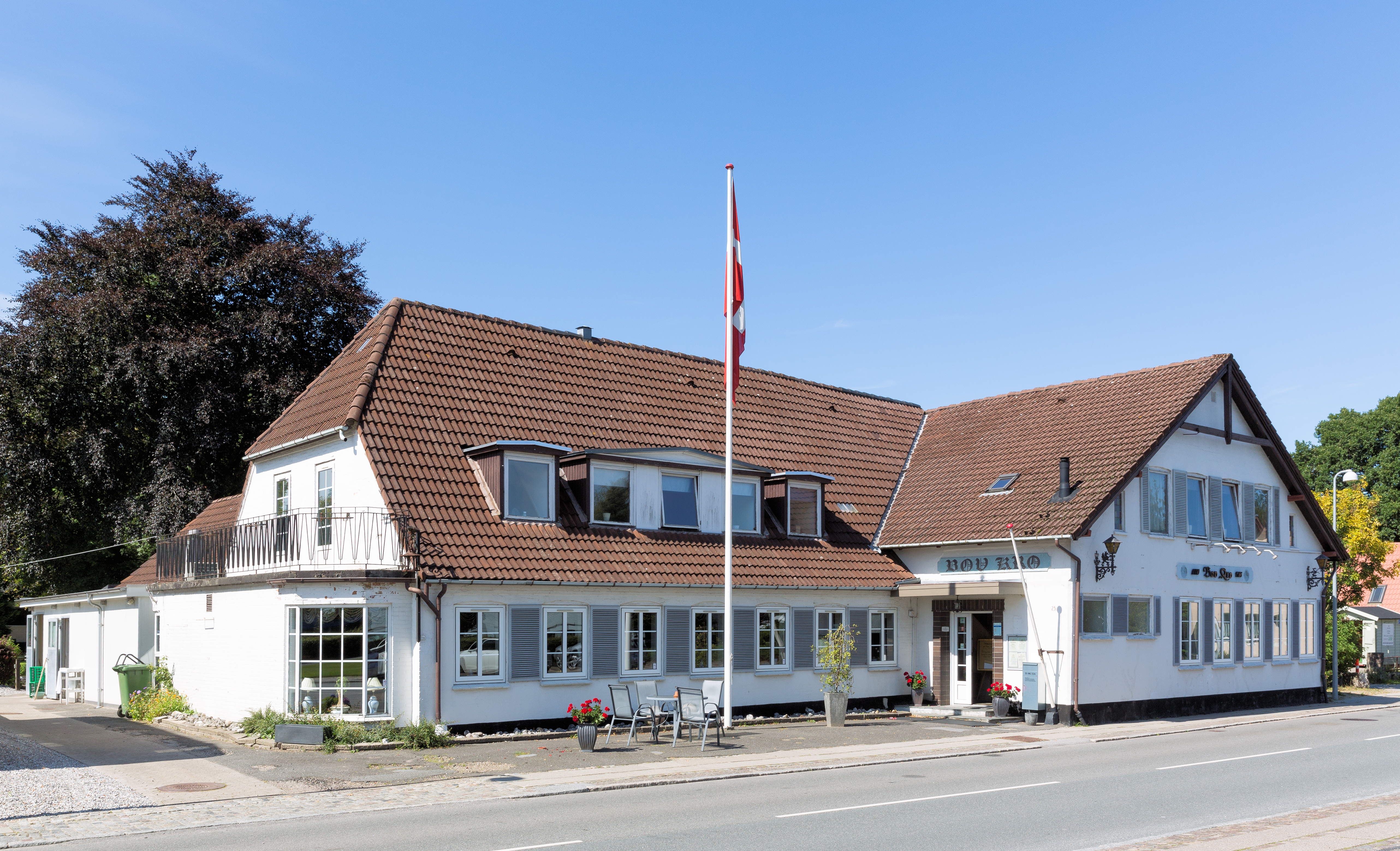 Bov Inn